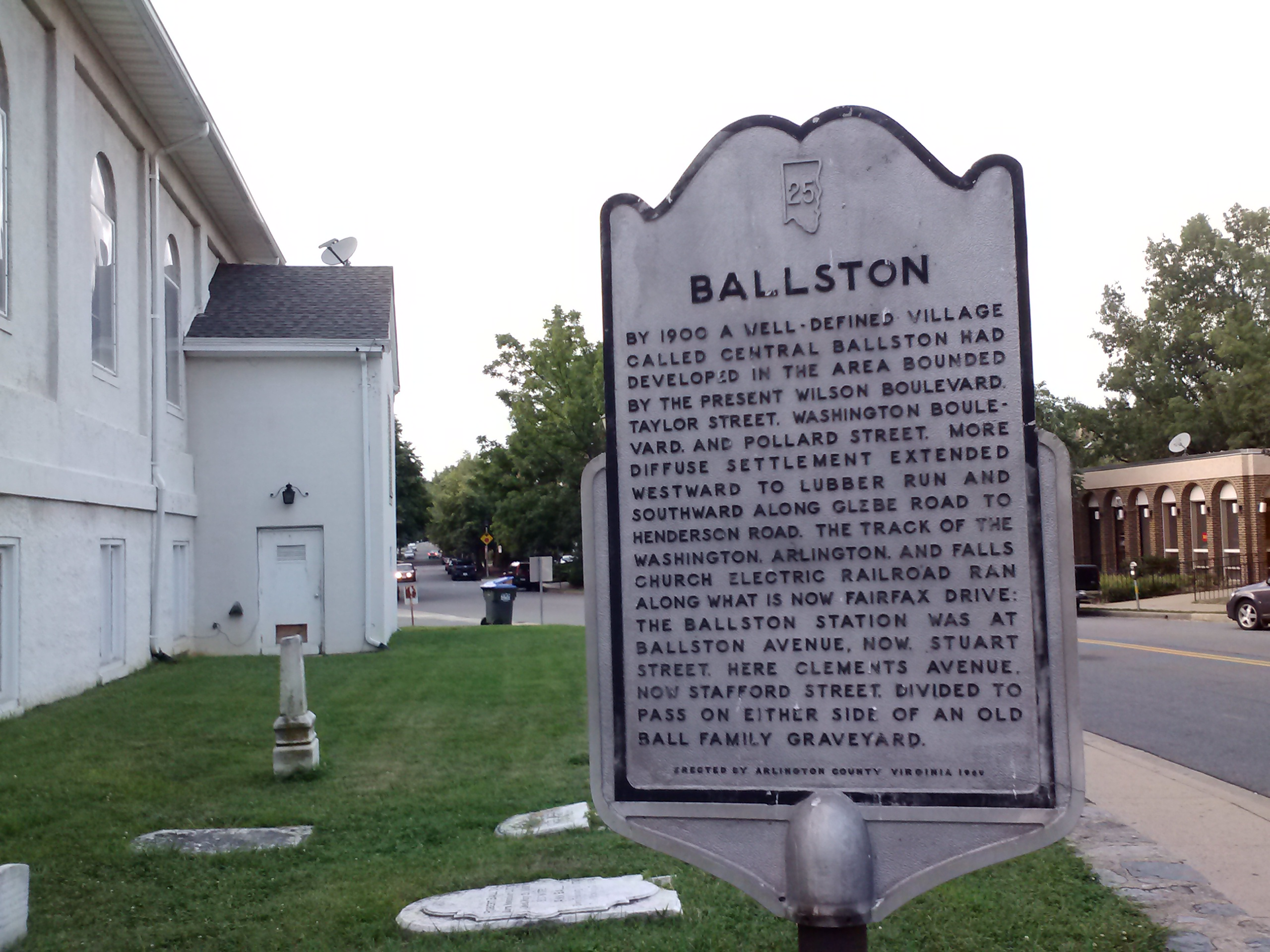 Historical Marker outside of United Methodist Church at northwest corner of Fairfax Drive and N. Stafford Street, Ballston, Arlington, VA.